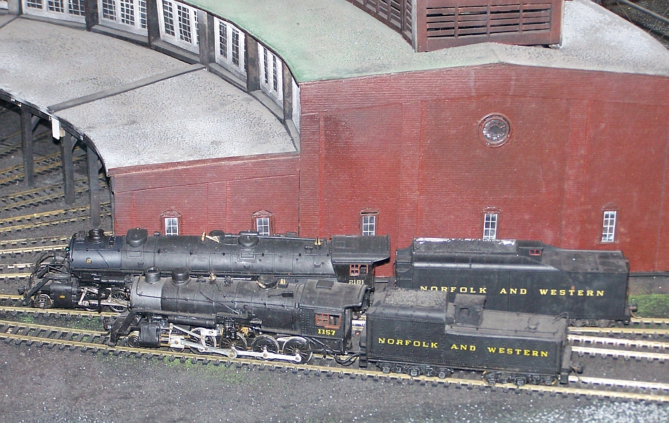 HO model at the N&W railroad museum in Crewe, VA, photo by William J. Grimes.